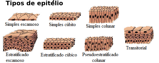 Types of epithelial cells. (in portuguese)